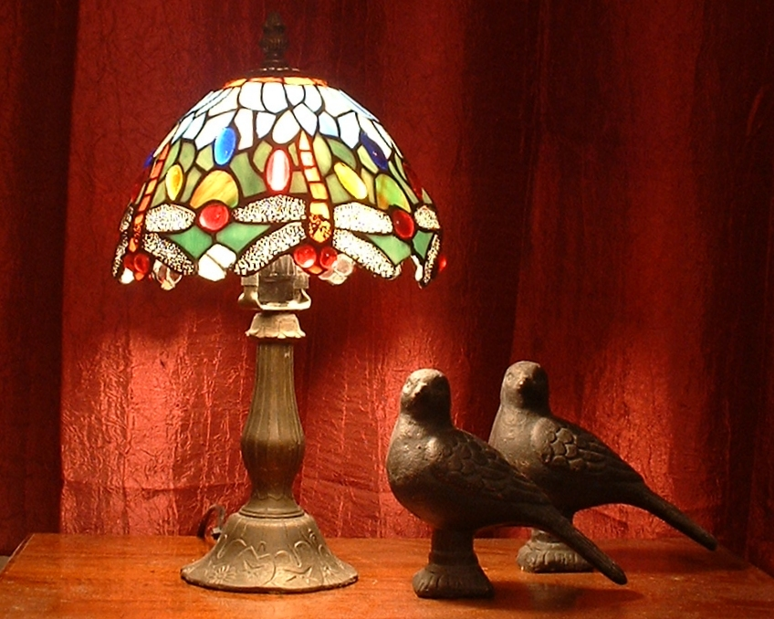 Typical Tiffany copper-foil lamp with dragonfly design, with two pigeon sculptures (both received as gifts - unknown creator). Photographed by myself on Dec. 17, 2005, with Fuji FinePix 2650 camera.